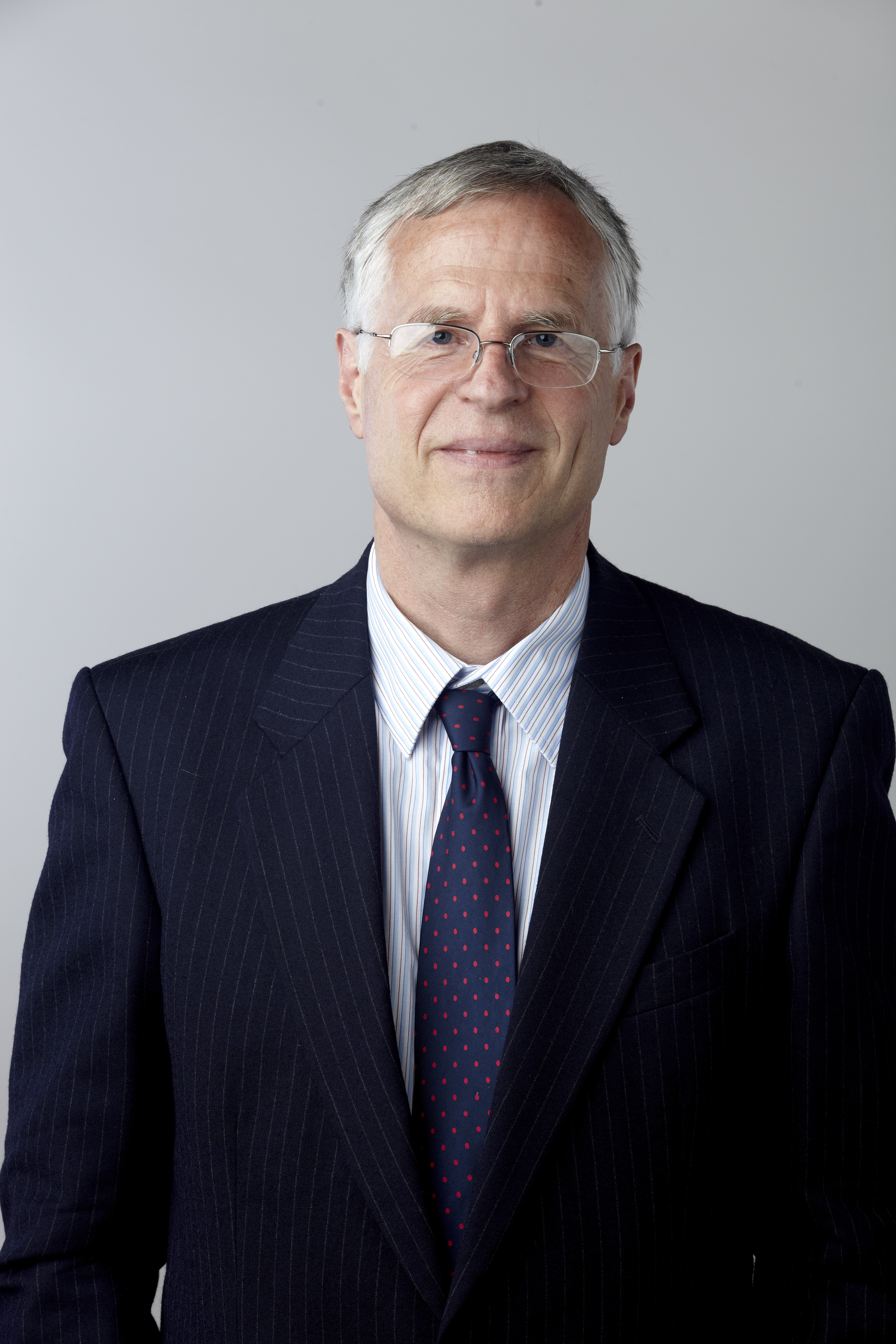 Dr Timothy Holland FRS, Royal Society Fellow elected 2014 Attribution: The Royal Society